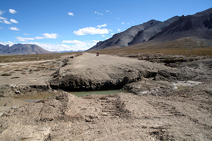 Shot by Sundeep Gajjar in The Great Indian Roadtrip